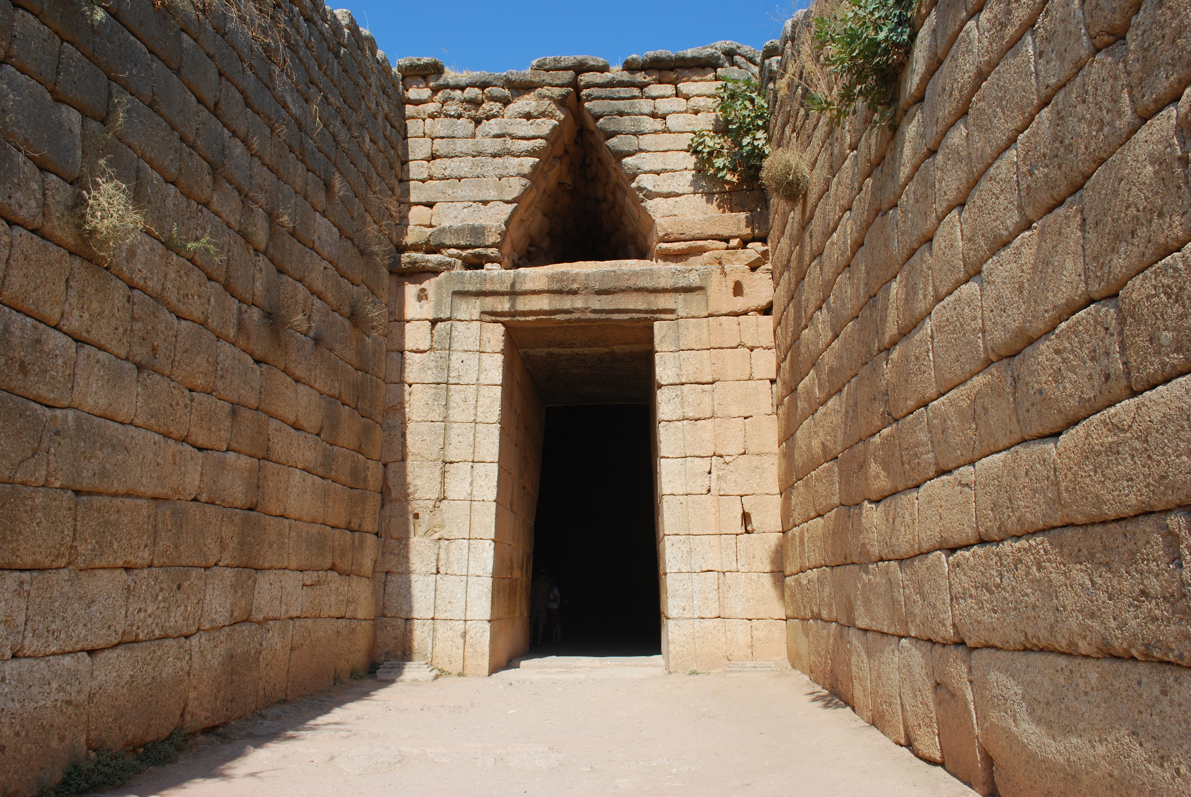 Corbelled arch, Treasury of Atreus, Mykene, Greece.